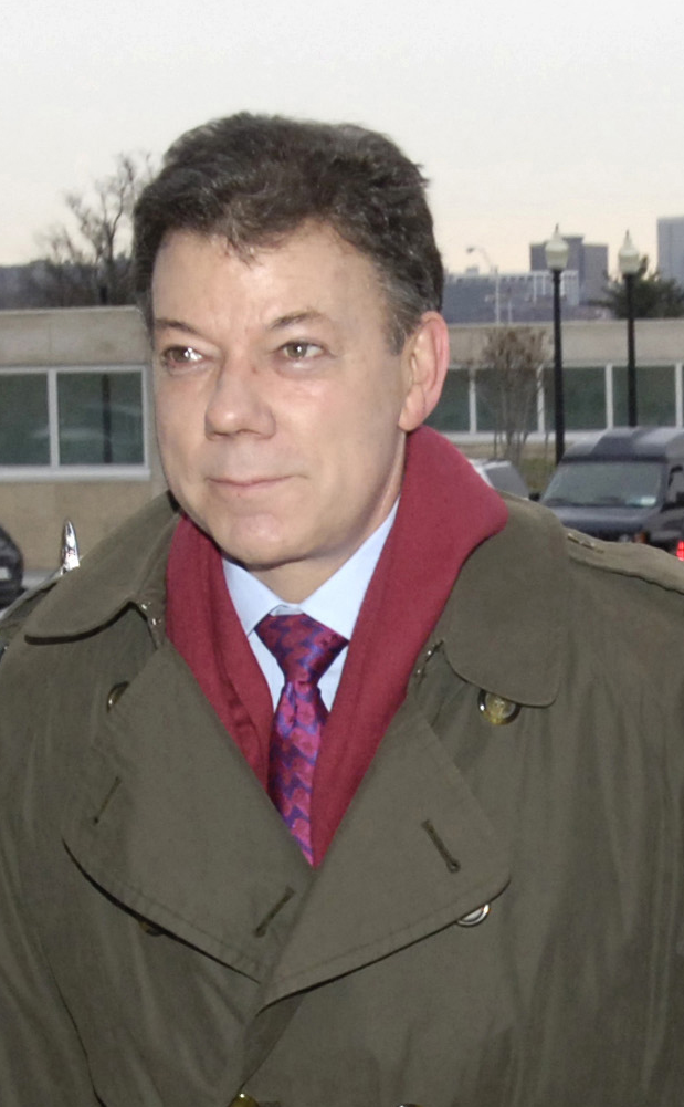 Image of Colombian minister of Defense Juan Manuel Santos. Public Domain. Work of the US Department of Defense. taken by Robert D. Ward on Feb 1, 2007.